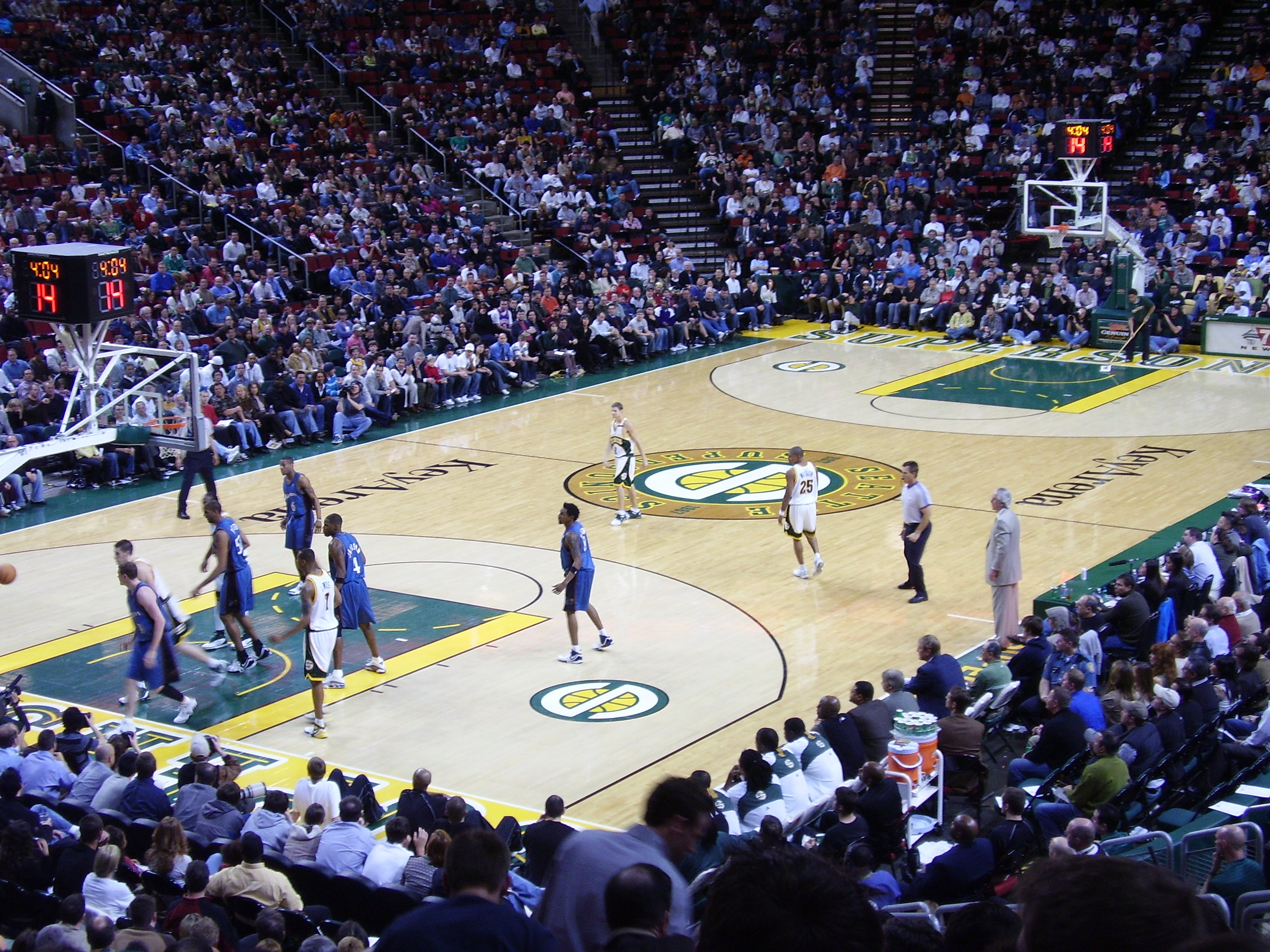 Sonics and Wizards playing Basketball